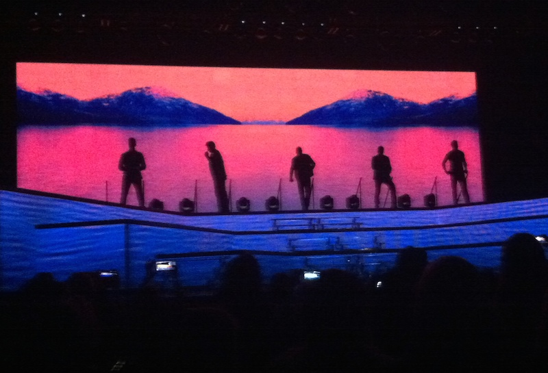 Backstreet Boys performing on the concert stop in Stockholm during their In a World Like This Tour